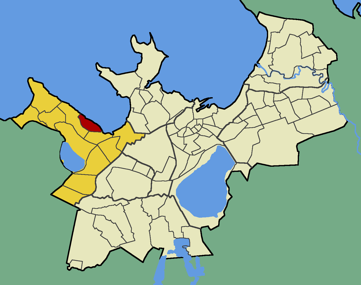 Map of Tallinn (Estonia) with borders of the quarters, Haabersti district and Rocca-al-mare quarter emphasised